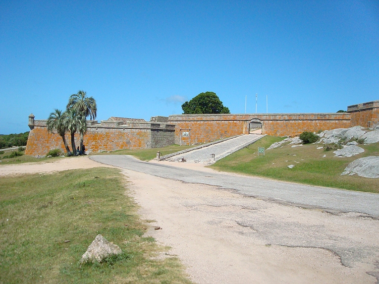 Fortaleza Santa Tereza, Rocha Department, Uruguay.